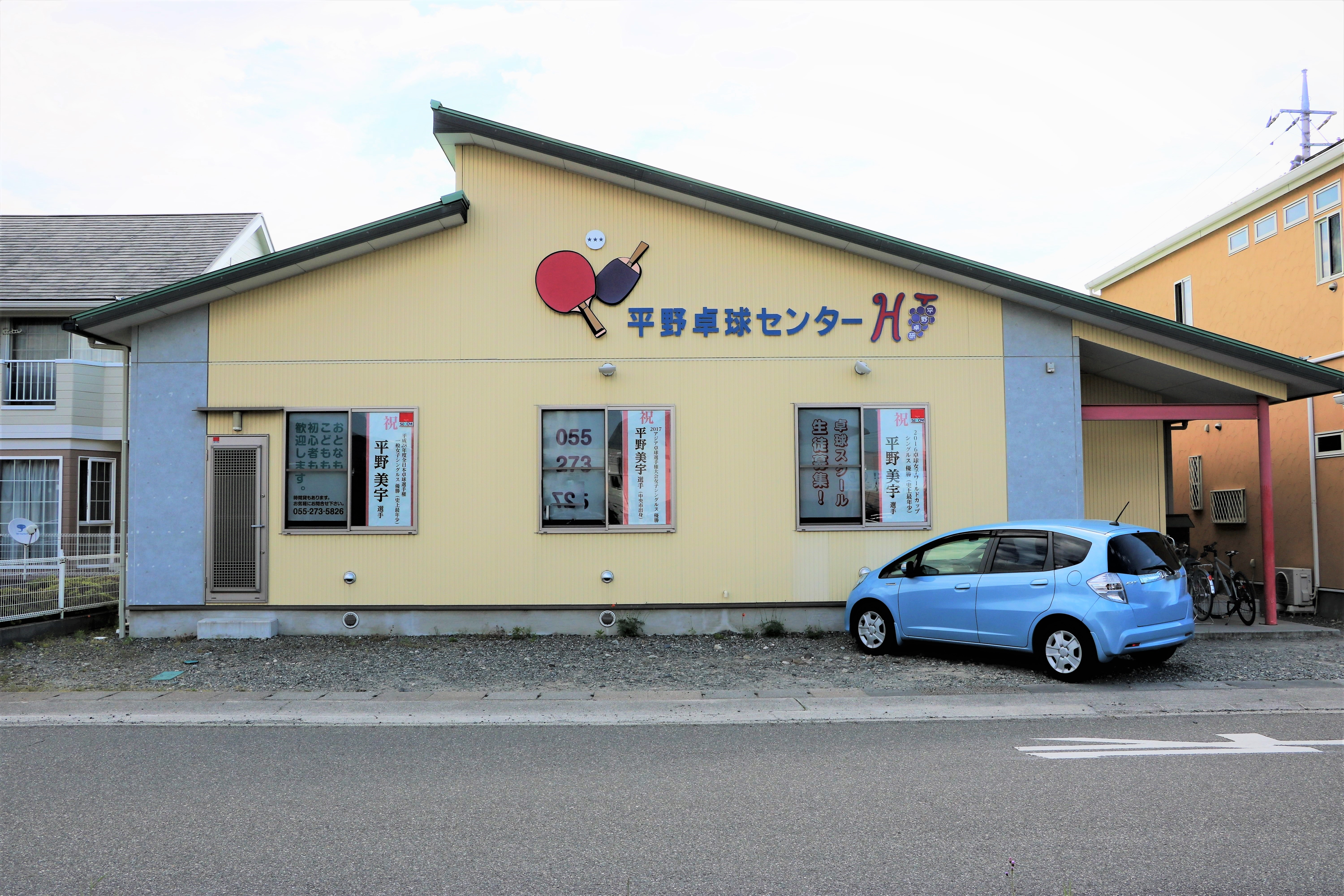 Hirano table tennis center.